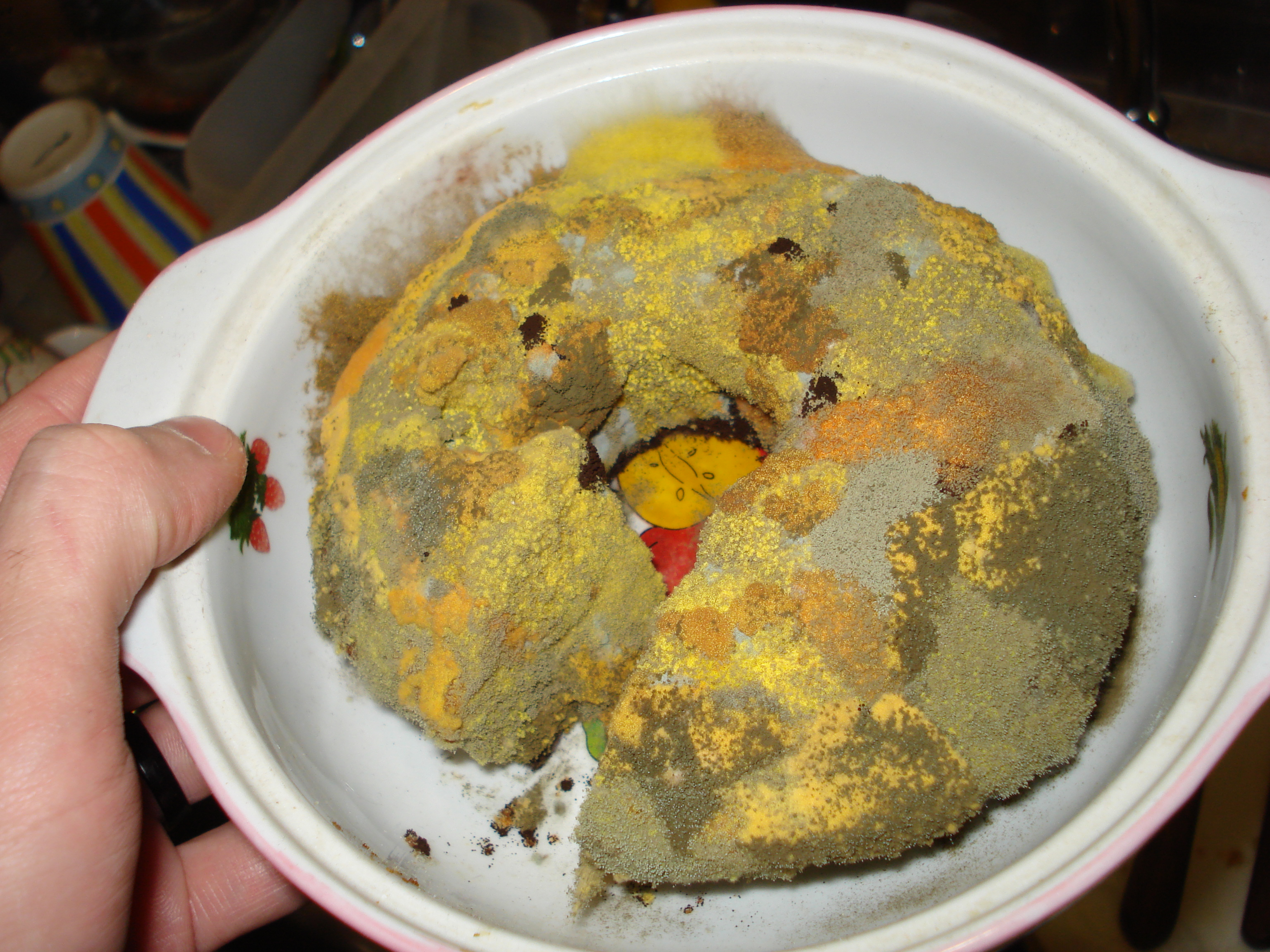 Mold or fungus.